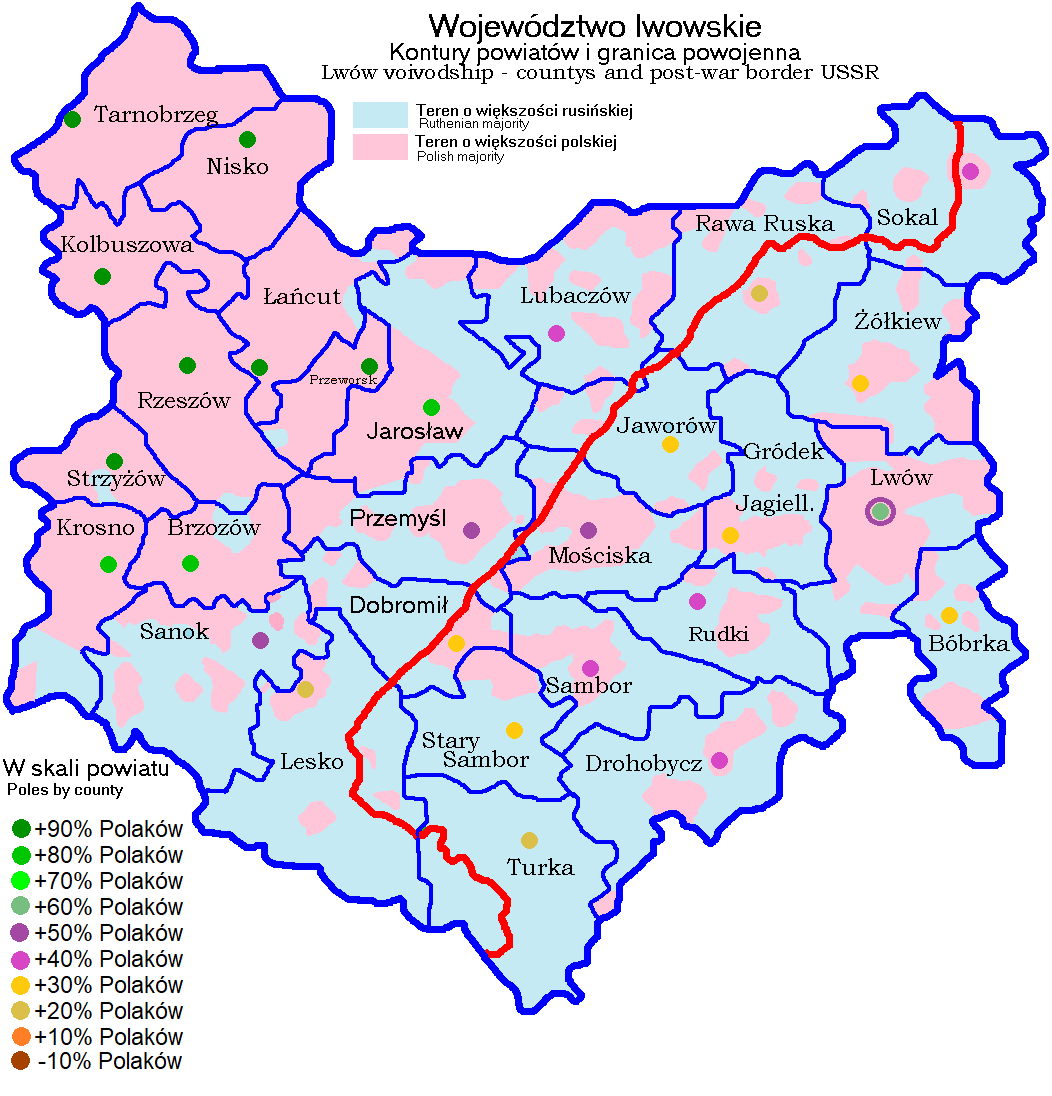 Countys of Lwów voivodship and ethnicities